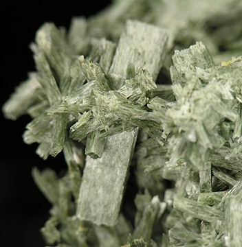 Amphibole (Var.: Uralite) Locality: Calumet Mine (Calumet; Calumet No. 2; Hecla; Hecla No. 2; Calumet Iron Mine; Calumet-Hecla-Smithville Magnetite Deposit; Patented Placer Claims: Calumet; Hecla-Williamson; Smithville No. 2; CF&I Company Mine), Turret District, Chaffee County, Colorado, USA (Locality at ) Size: 5.6 x 5.0 x 3.3 cm. These specimens have been referred to as "Uralite" for many years, but this is not a valid species. It is defined as being a variety of the amphibole group. Calumet "Uralites" are most often pseudomorphs of an amphibole (Actinolite) after a pyroxene (Diopside / Augite). The crystals are typically not visible as they are found coated by Calcite, which is etched away with hydrochloric acid to expose the underlying "Uralite" crystals. They are true classics from this famous mine which is most well known for its impressive Epidote and Quartz association specimens. Ex. Jaime Bird Collection.